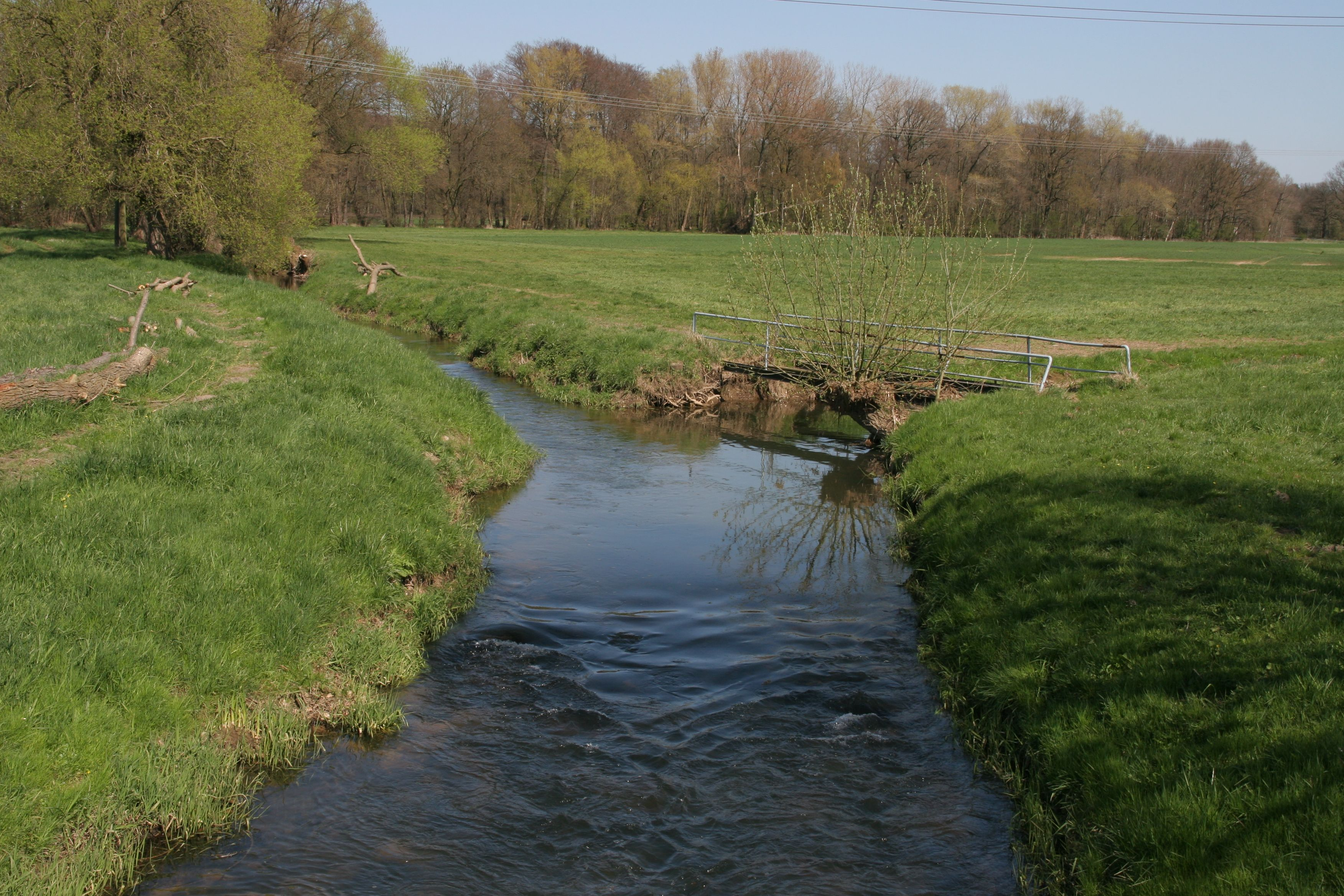 Bissendorf: embouchre of the river Wierau into the river Hase